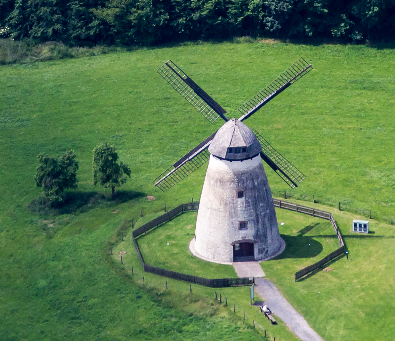 Windmühle am Höxberg, Beckum, North Rhine-Westphalia, Germany This image shows a heritage building in Germany, located in the North Rhine-Westphalian city Beckum.